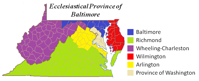 The Ecclesiastical Province of Baltimore encompasses the states of Maryland (except the five counties that are part of the Archdiocese of Washington), Delaware, Virginia and West Virginia, USA.